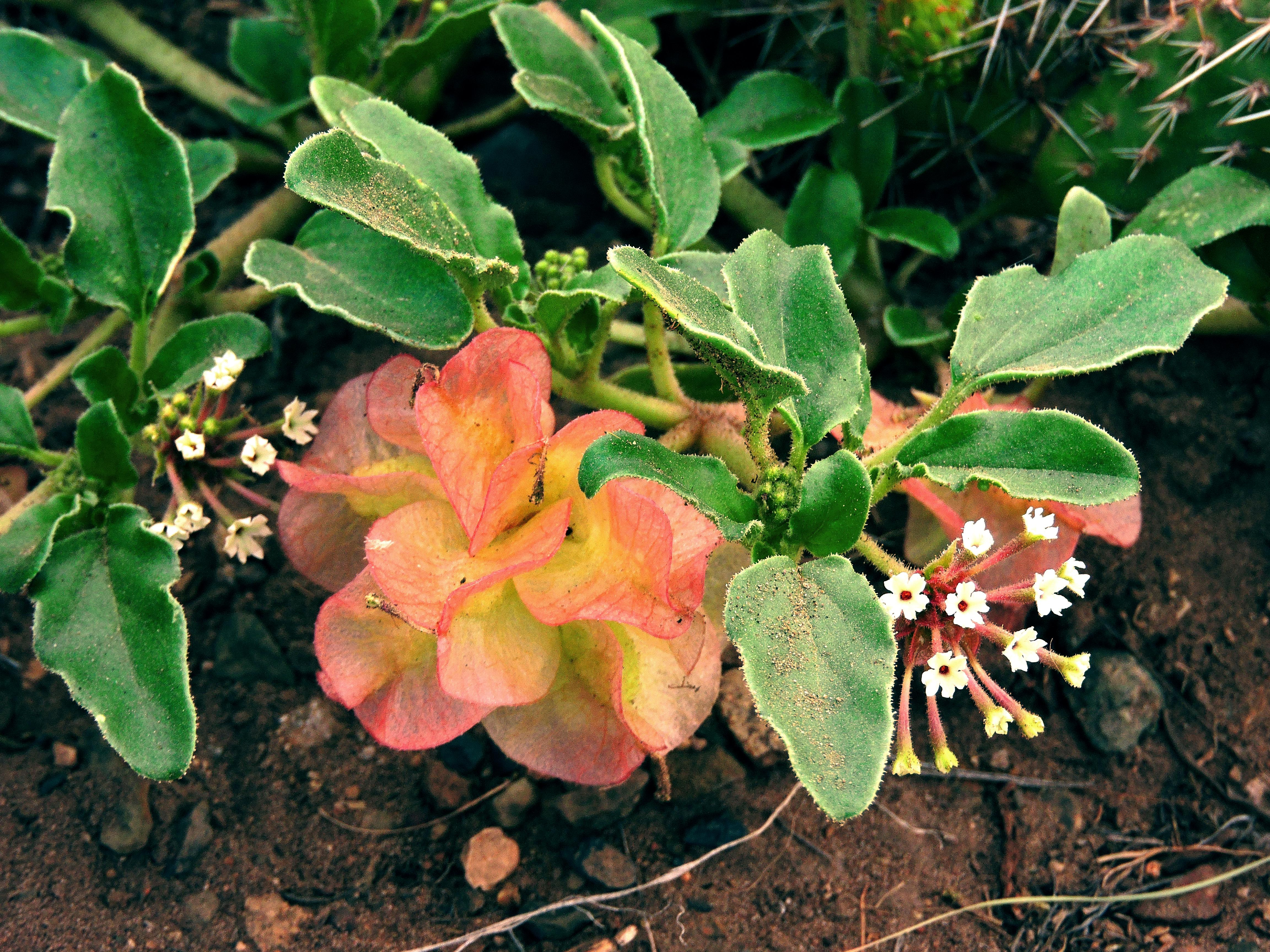 NPS/Patrick Myers This rare plant generates many visitor questions each summer. Visitors assume the large, lush seedpod is a blossom, but the flowers are actually the tiny white blossoms at the end of succulent, pink tubes. This verbena looks like it belongs more in a tropical rainforest than a desert - just another hidden surprise at Great Sand Dunes! The scientific name for this species is Tripterocalyx micranthus. Because this plant is relatively rare, its historical medicinal uses are not well-known. Regional tribes used related Tripterocalyx species as a diaphoretic, sedative, snake bite treatment, and sore throat treatment.